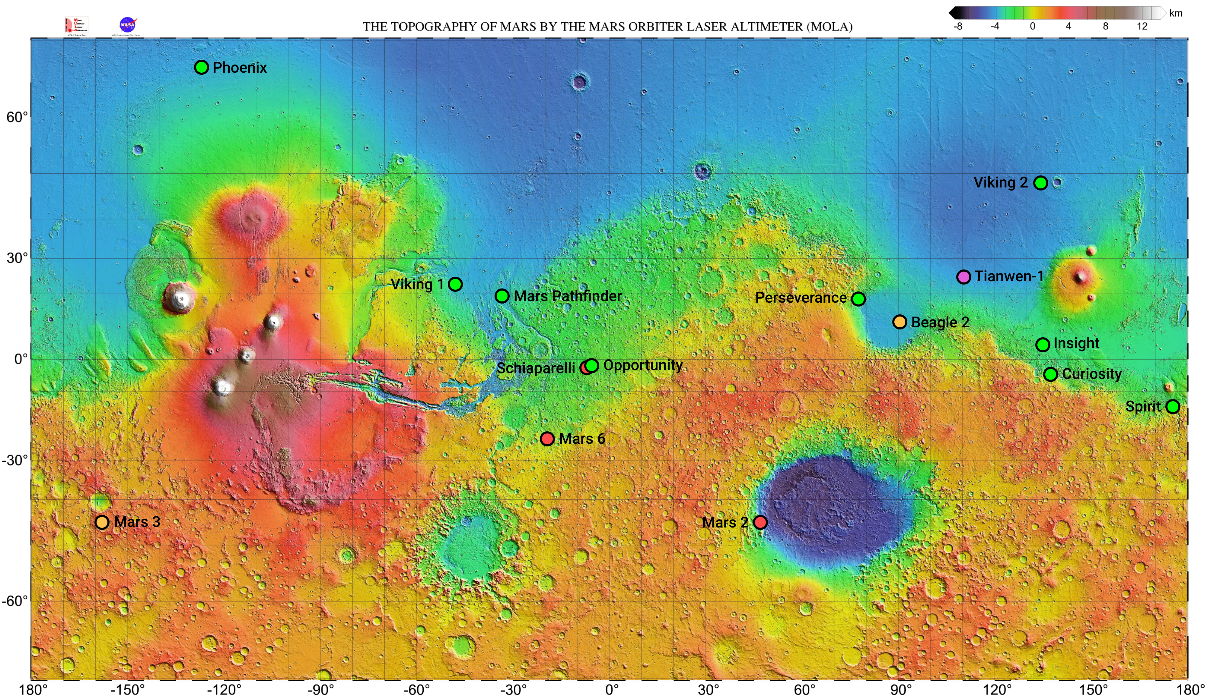 A topological map of Mars with successful landings (green), failure (red), successful landing but loss of the probe (orange), in coming landing (pink), the two pre-selected landing site of Tianwen-1 and the final chosen landing site.